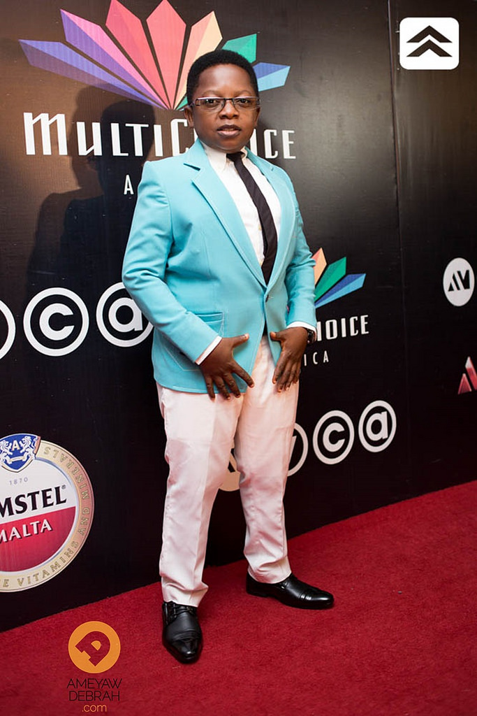 Aki at the 2014 Africa Magic Viewers Choice Awards